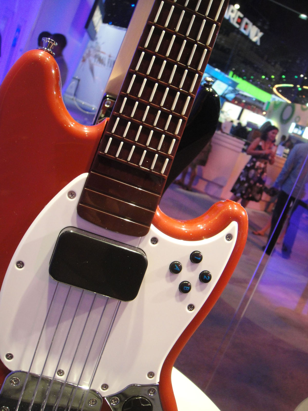 Fender® Mustang Pro Guitar Controller for Rock Band 3 @ E3 Expo 2010